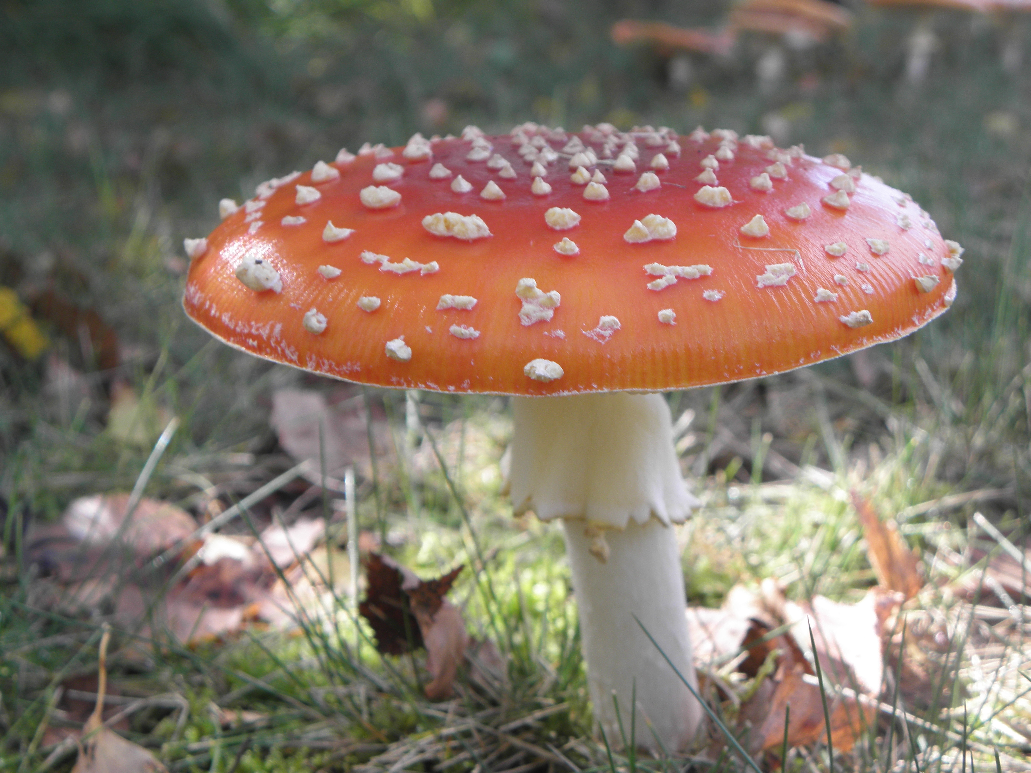 Fly Agaric